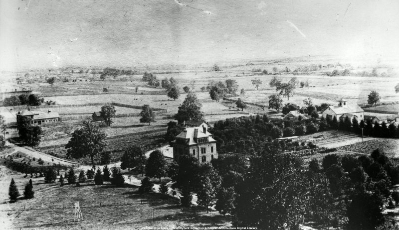 Veterinary Hospital (left) and Experiment Station (middle) at Ohio State University.